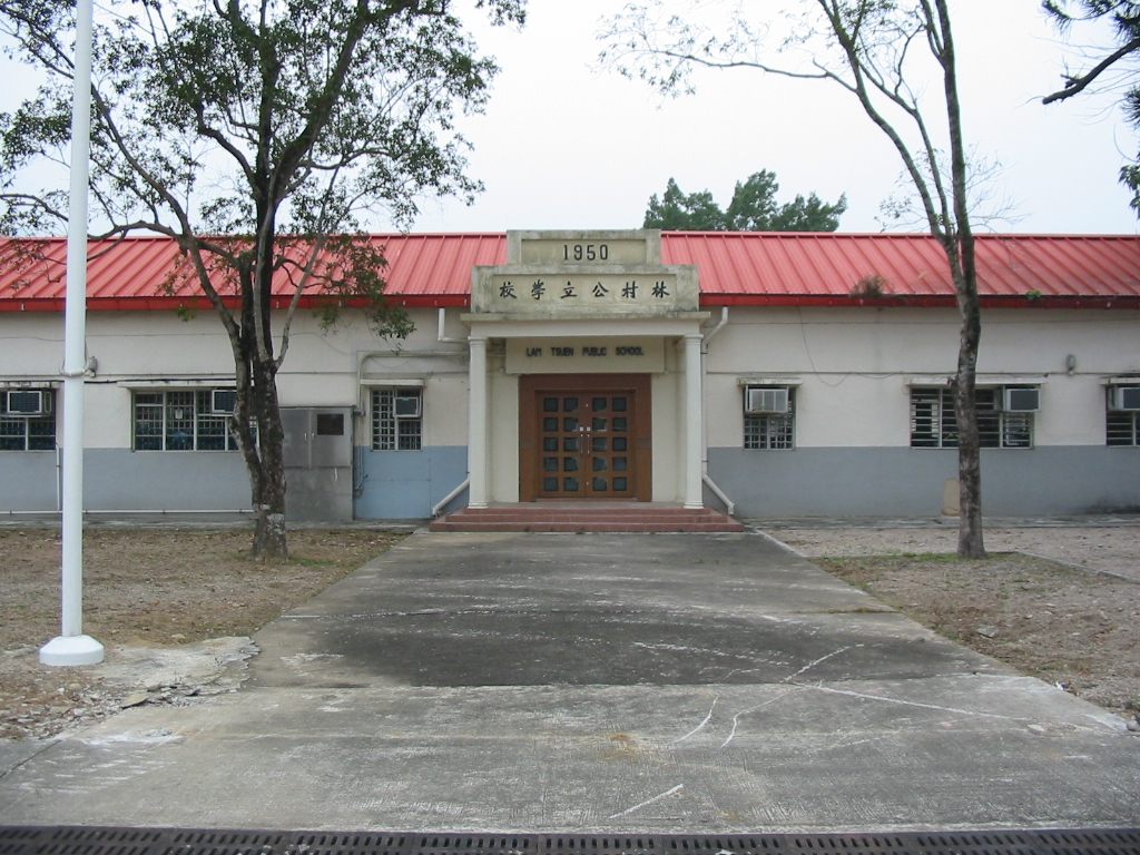 Lam Tsuen Public School